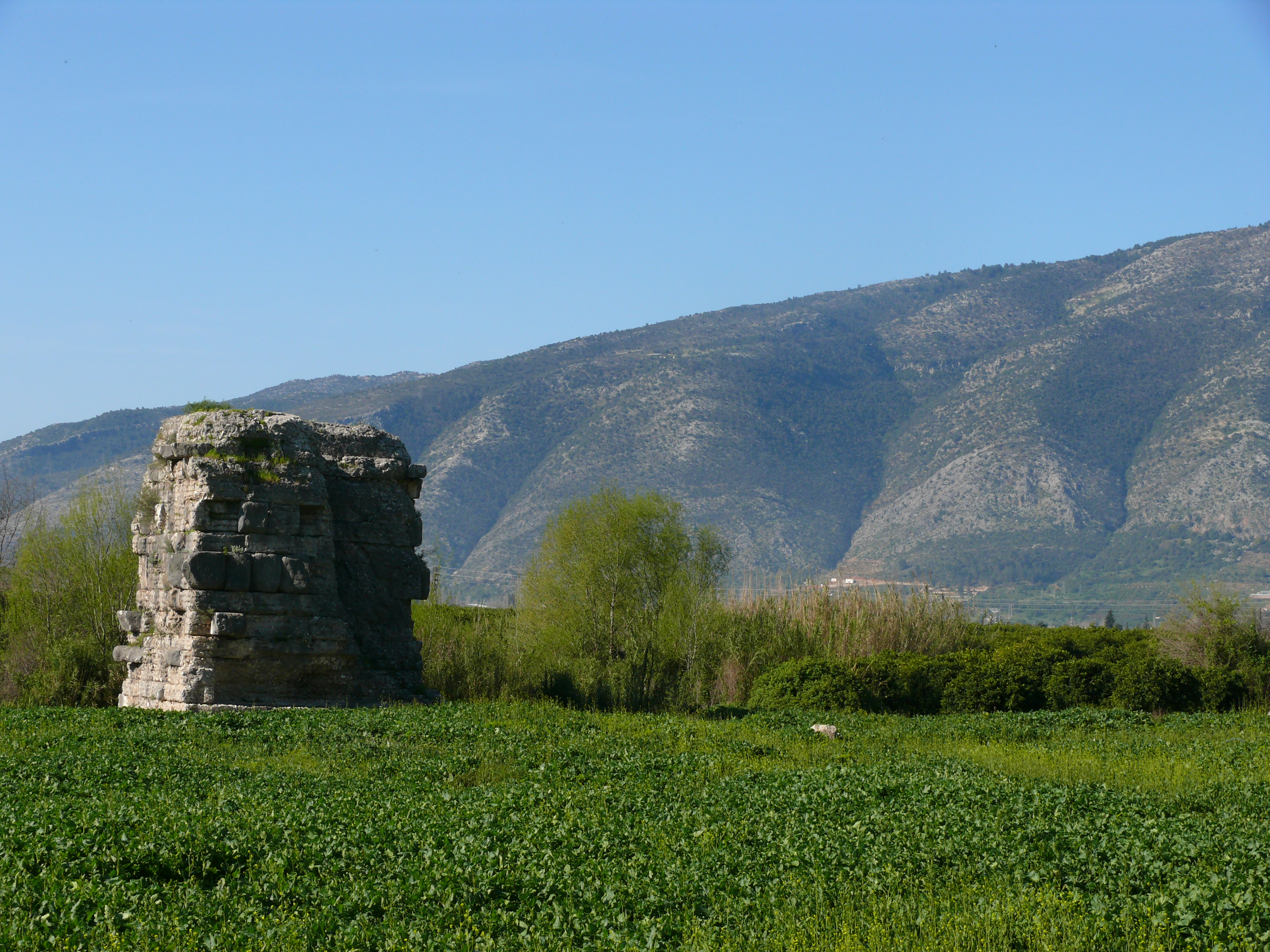 remains of the cenotaph of Gaius Caesar in Limyra